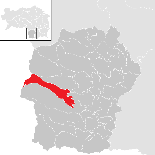 District Deutschlandsberg, Styria, Austria